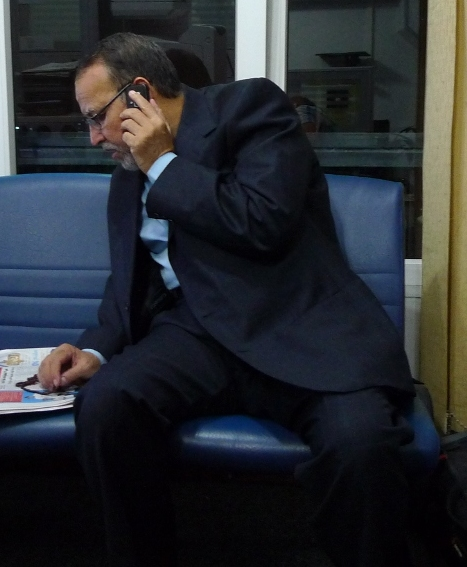 Essam el-Arian, a senior member of the Muslim Brotherhood and its unofficial spokesman, reads the state-friendly al-Ahram newspaper and takes a journalist's call on his mobile phone as he waits for an interview with Al Jazeera English two days before Egypt's election for its lower house of parliament. The Brotherhood won no seats in the first round of voting and has withdrawn from the run-off in protest.